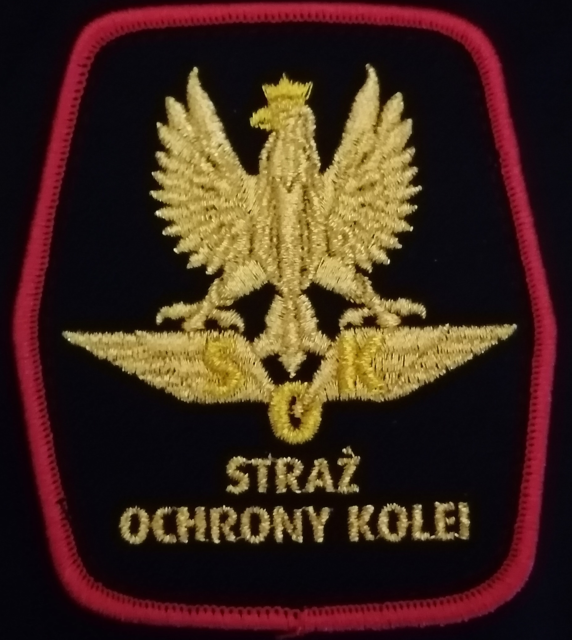 Railway Security Guards Poland logo